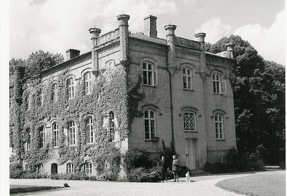 Vintage photo of Benzonsdal in Ishøj Municipality, Denmark